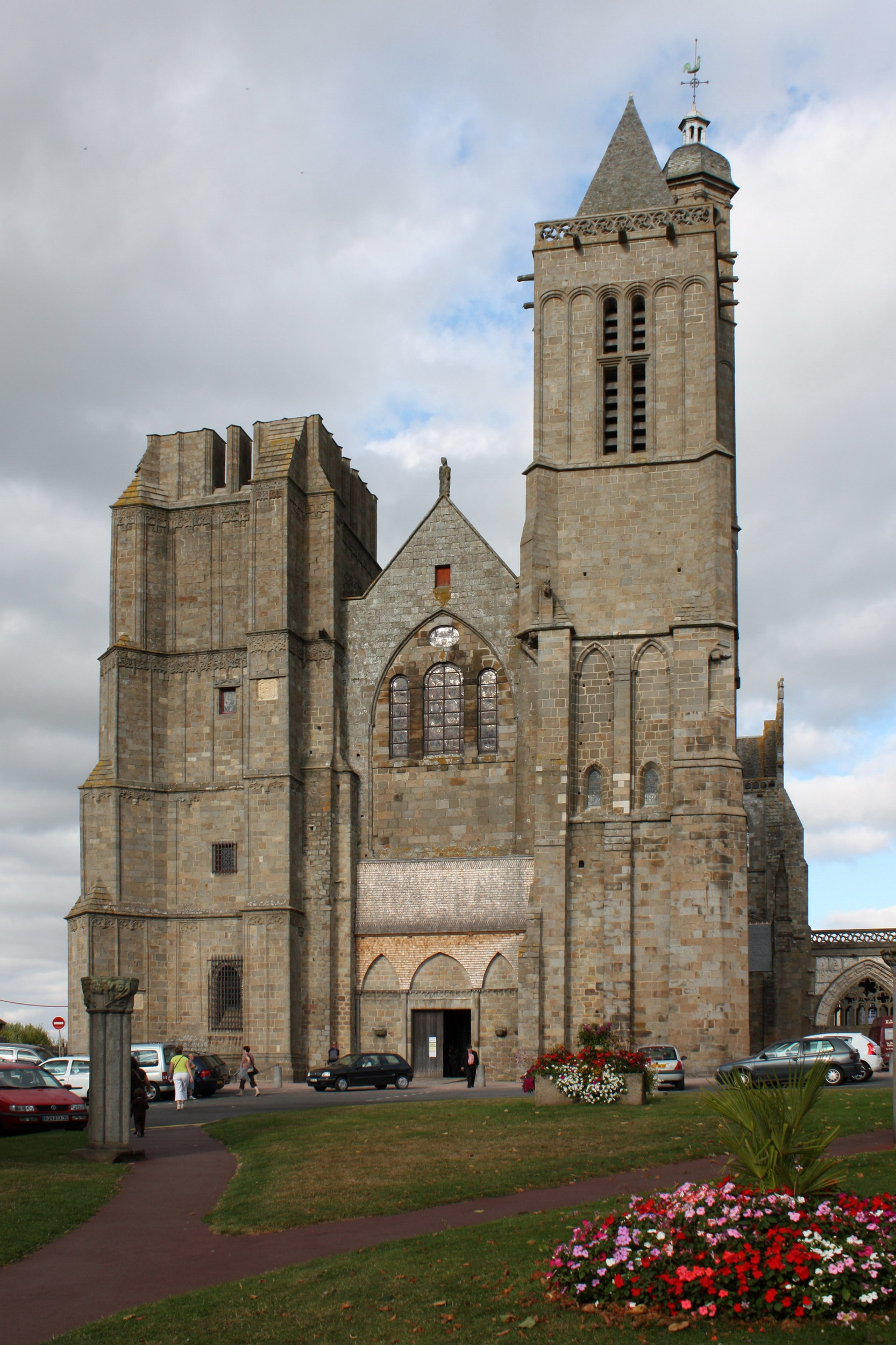 The facade of Dol Cathedral.